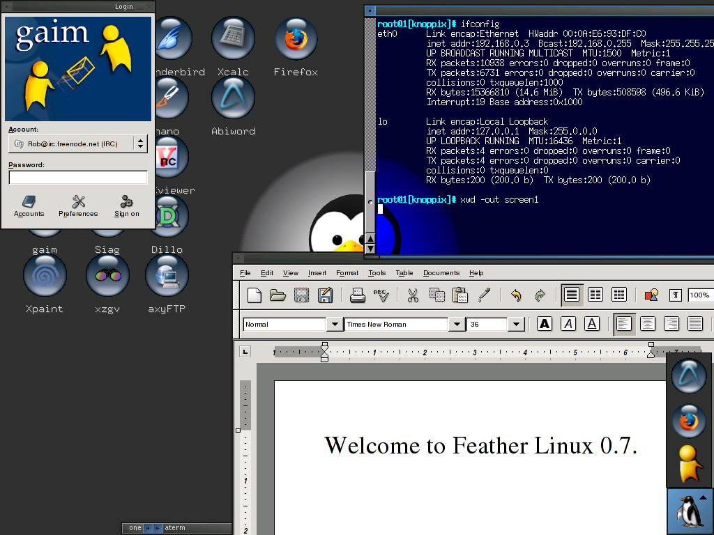 Feather Linux Screenshot